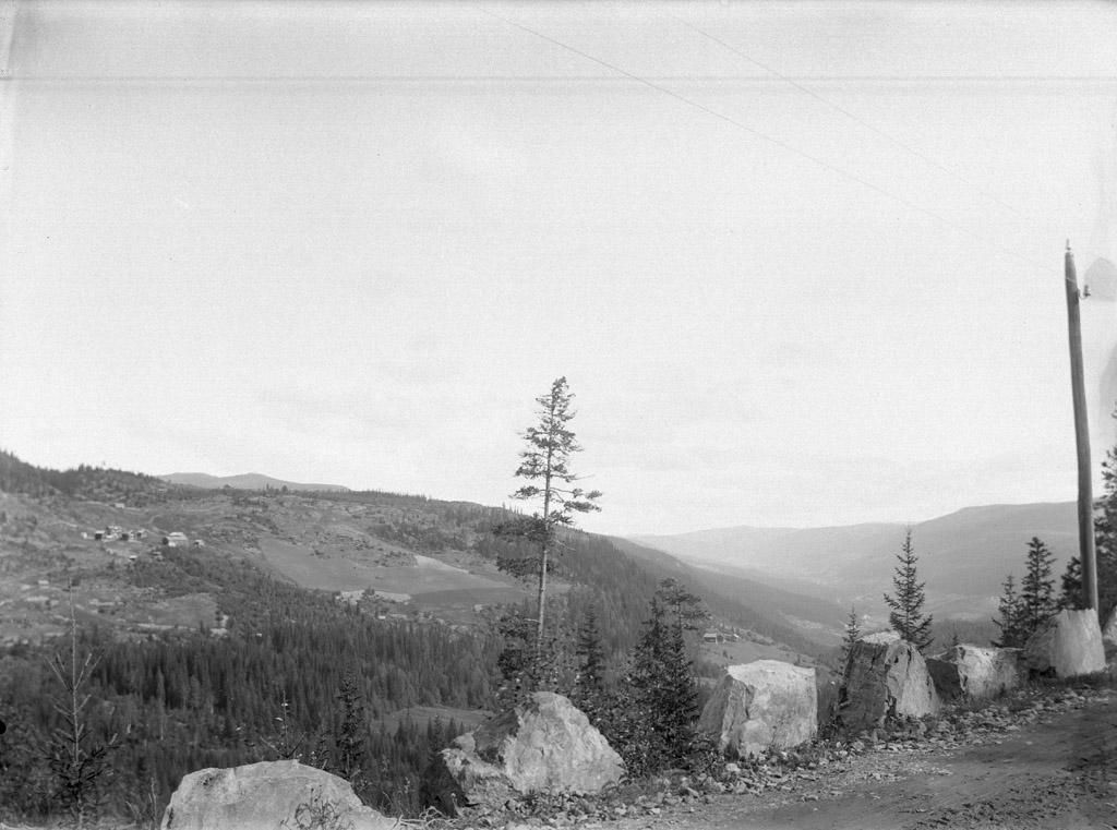 View from Tonsåsen over Etnedal and Bruflat in the valley. To the left Fjellsbygden. Valdres